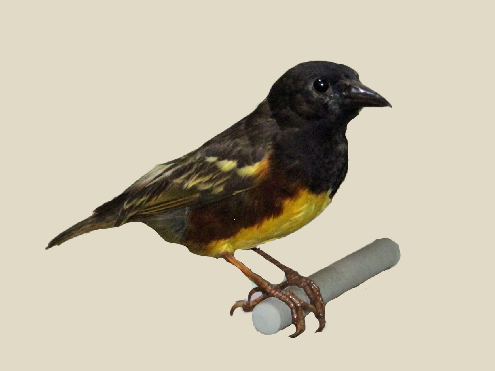 Male Weyns's Weaver (Ploceus weynsi). Photograph of a specimen at Nairobi National Museum in Nairobi, Kenya.